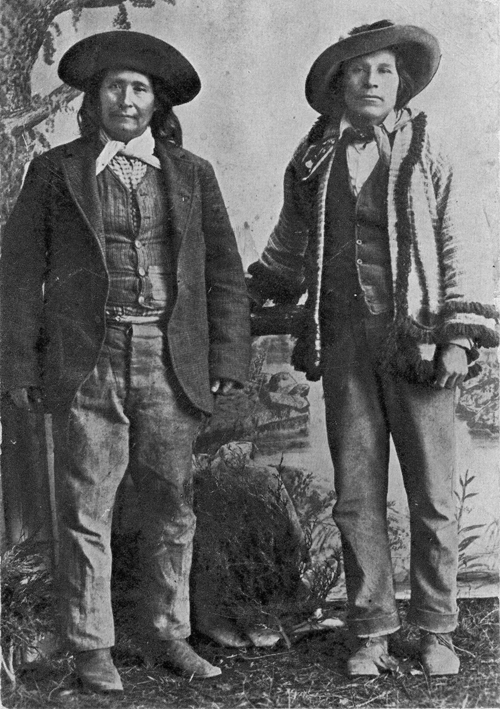 Choctaw Nation Native American men after the American Civil War. These men typify the clothing used during the War.